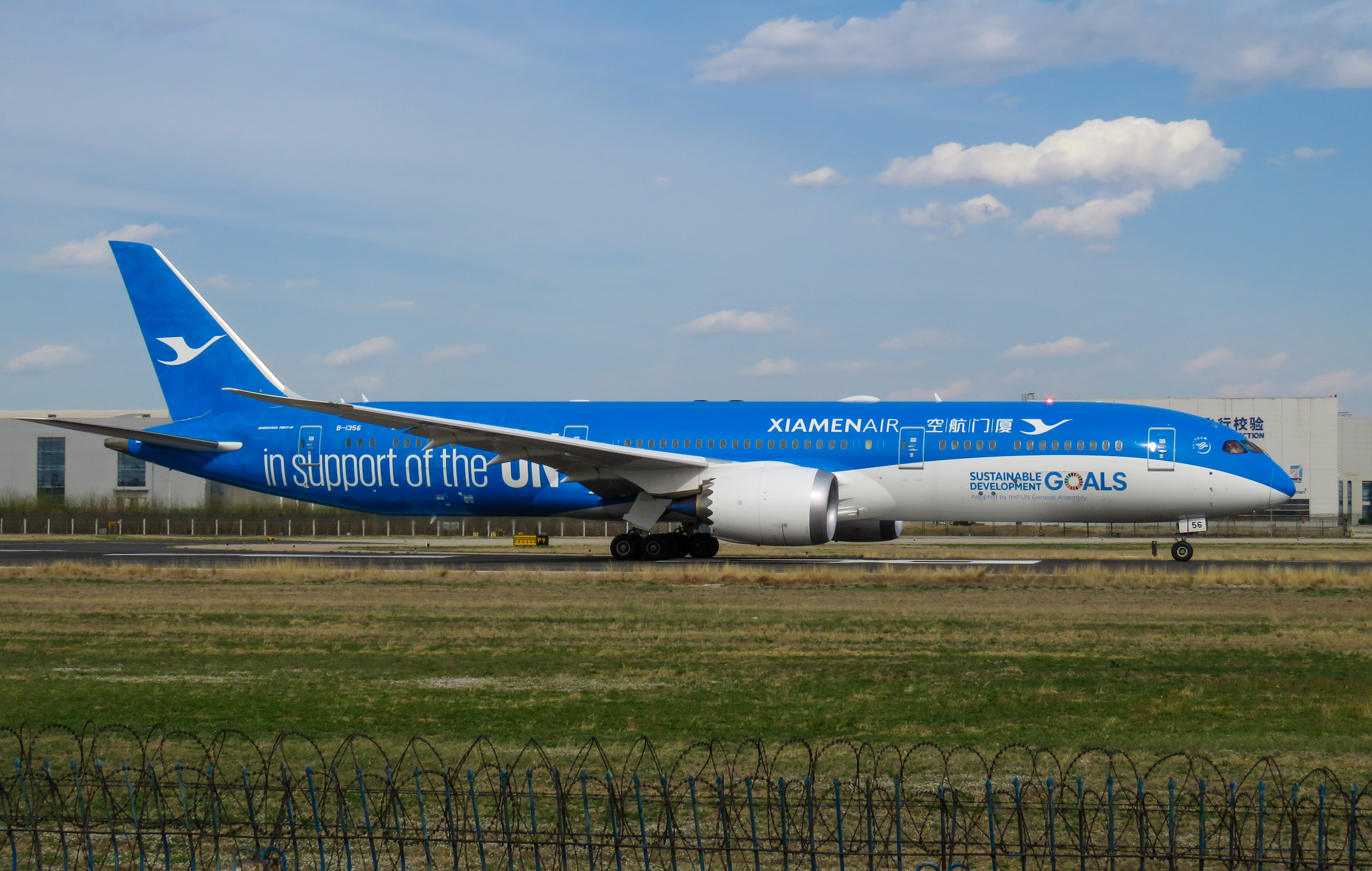 Egret 8142 to Shenzhen. If this "fake KLM" happened to operate a flight with KLM codeshare, what would passengers think?